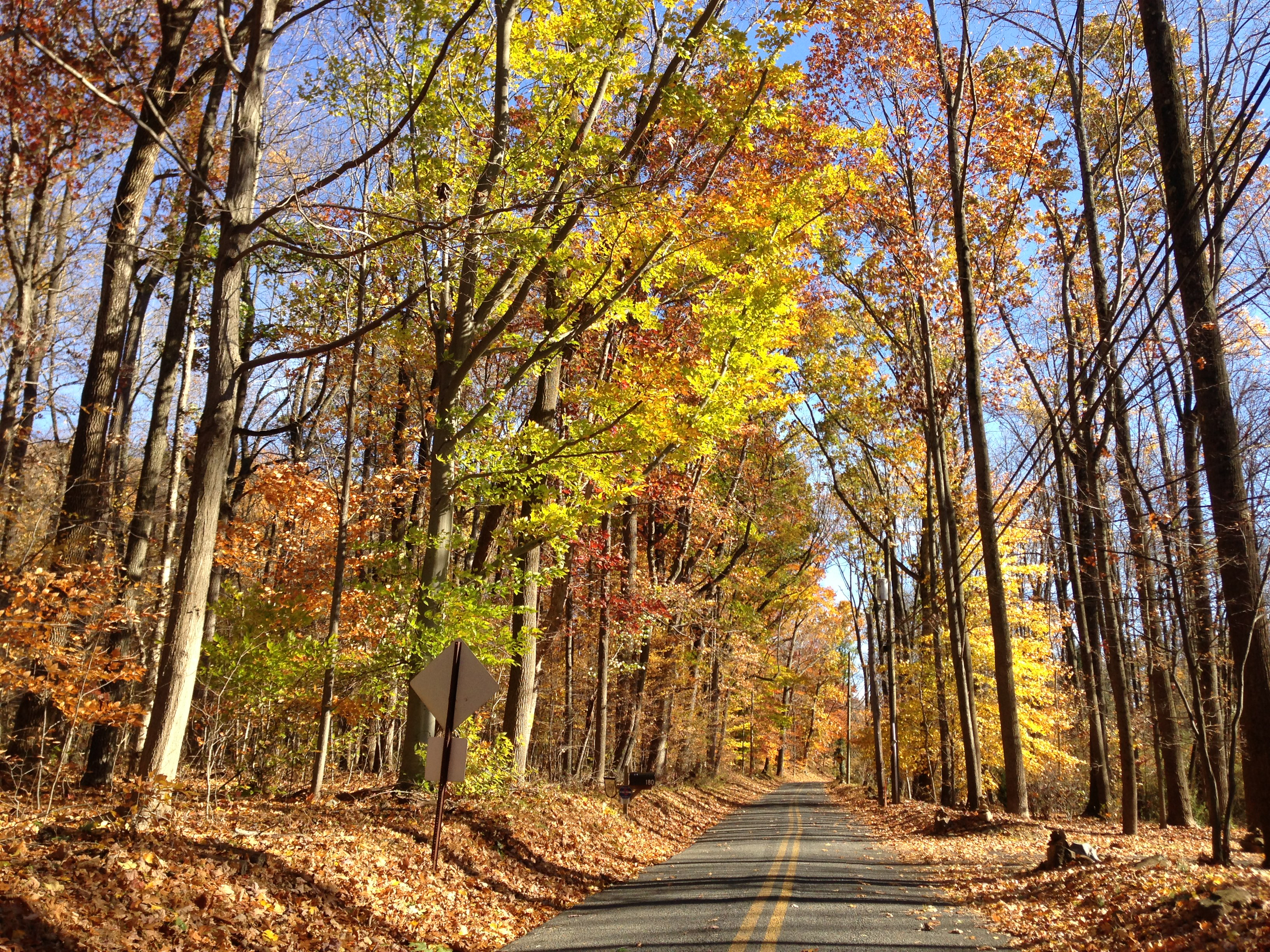 View east along a wooded portion of Woosamonsa Road during autumn in Hopewell Township, New Jersey